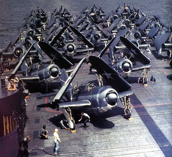 U.S. Navy Curtiss SB2C-1 Helldiver bombers Bombing Squadron Five (VB-5) pictured on the flight deck aboard the ciarctaft carrier USS Yorktown (CV-10). VB-5 went aboard Yorktown during May-June 1943 to participate in the ship's shakedown cruise. The results were disastrous, for the squadron's SB2C Helldivers suffered numerous mechanical difficulties, not the least of which was the propensity for the aircrafts' tailhooks to pull out of their wells during recovery aboard the ship. Yorktown´s skipper, Capt. Joseph C. Jocko Clark, became so irate that he had them replaced with Douglas SBD-5 Dauntless dive-bombers, which VB-5 eventually took into combat.